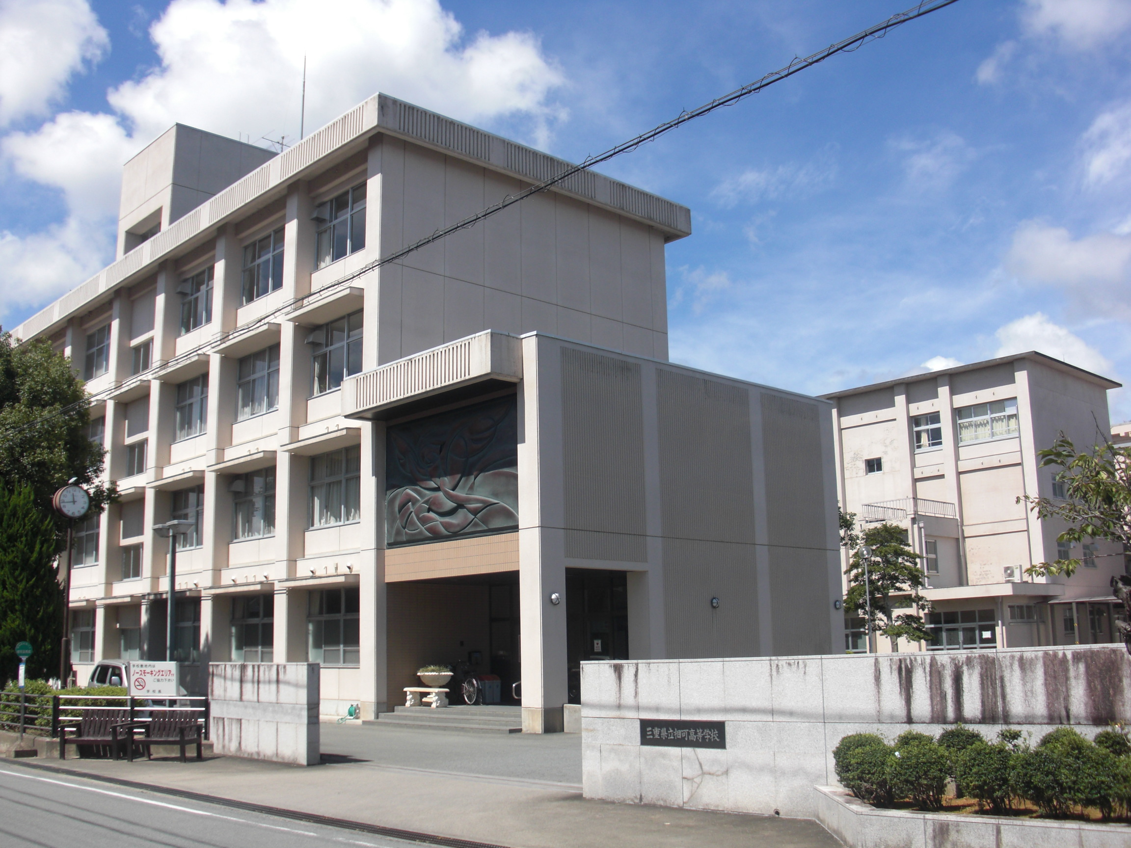 This is a high school in Taki, Mie, Japan.